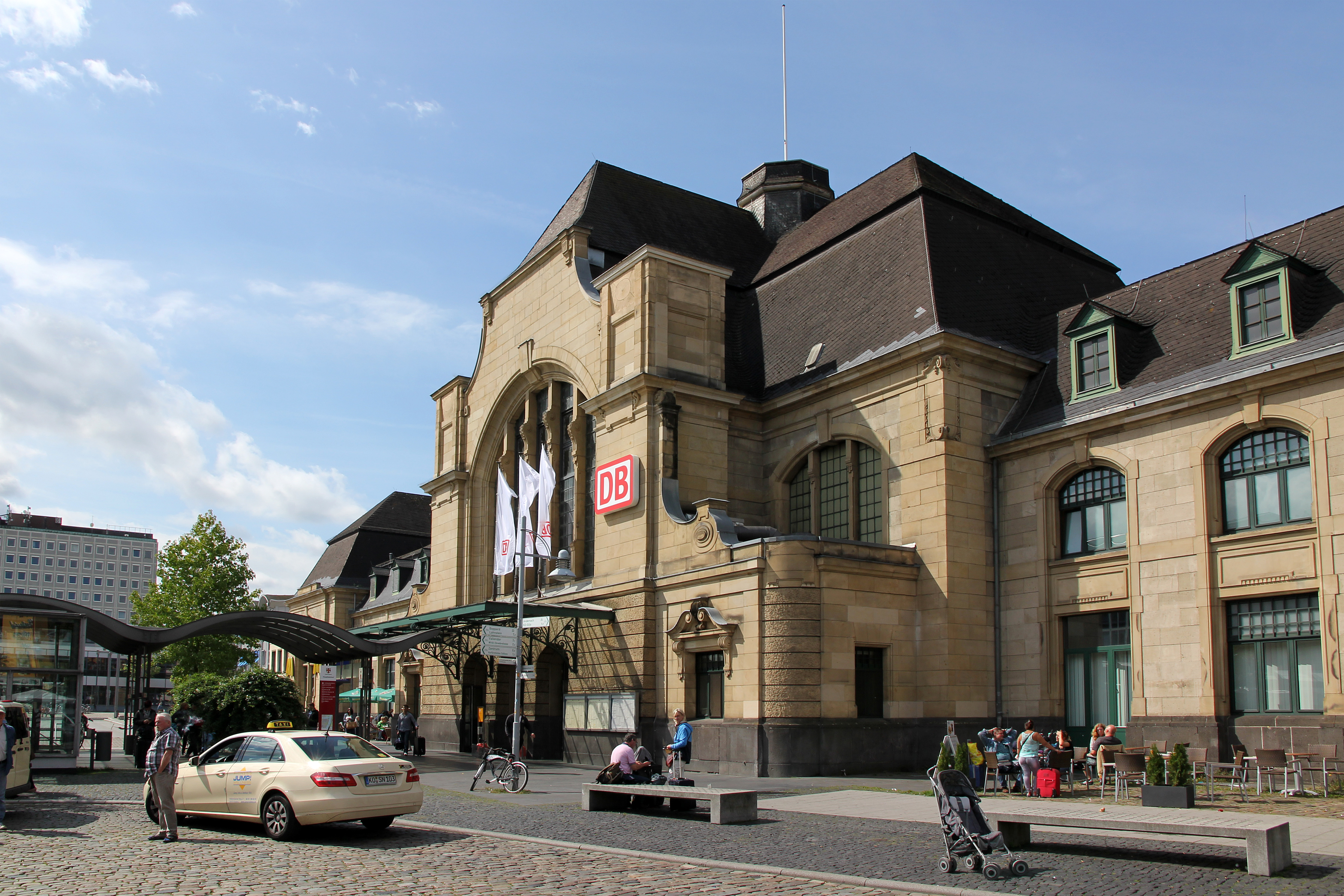 Main station in Koblenz